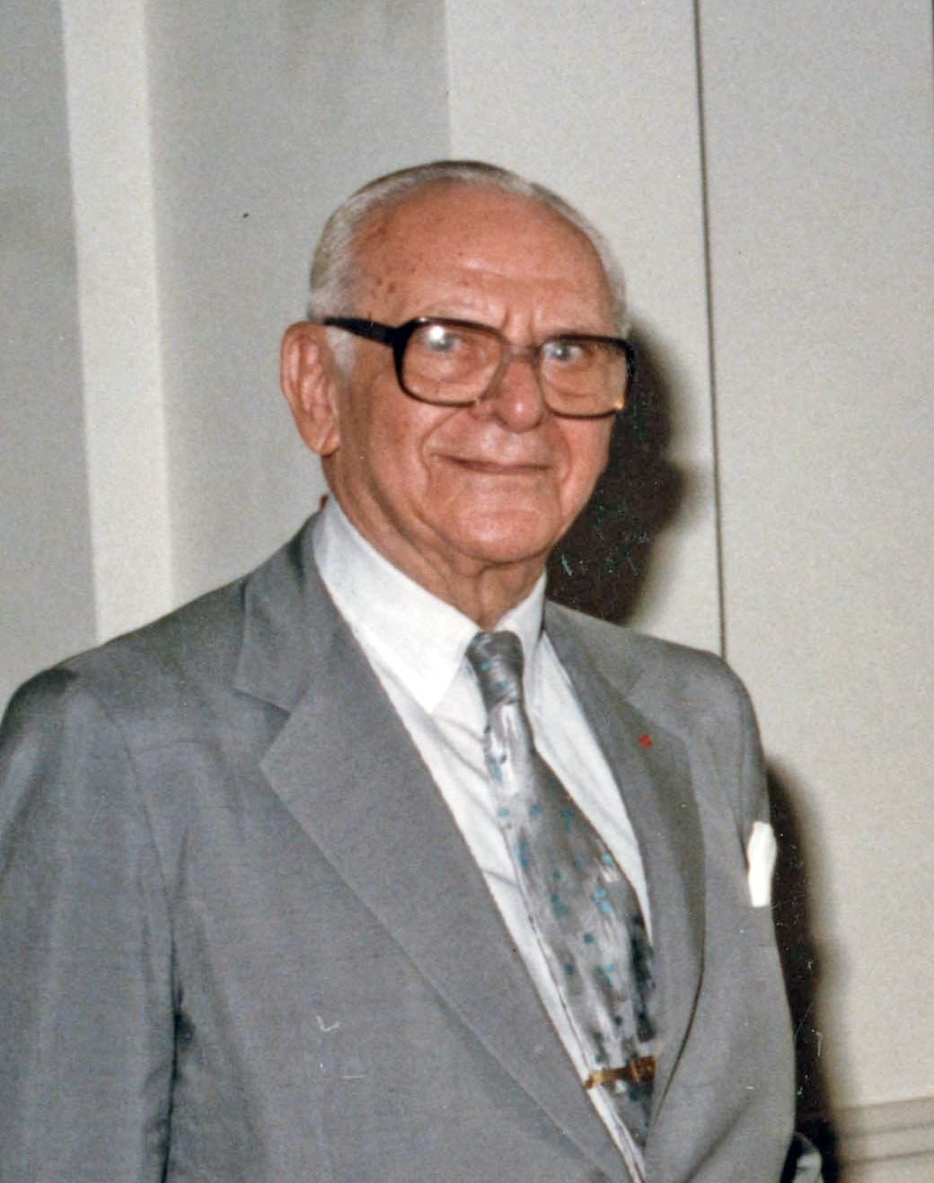 Armand Hammer in 1982, crop of another Commons file